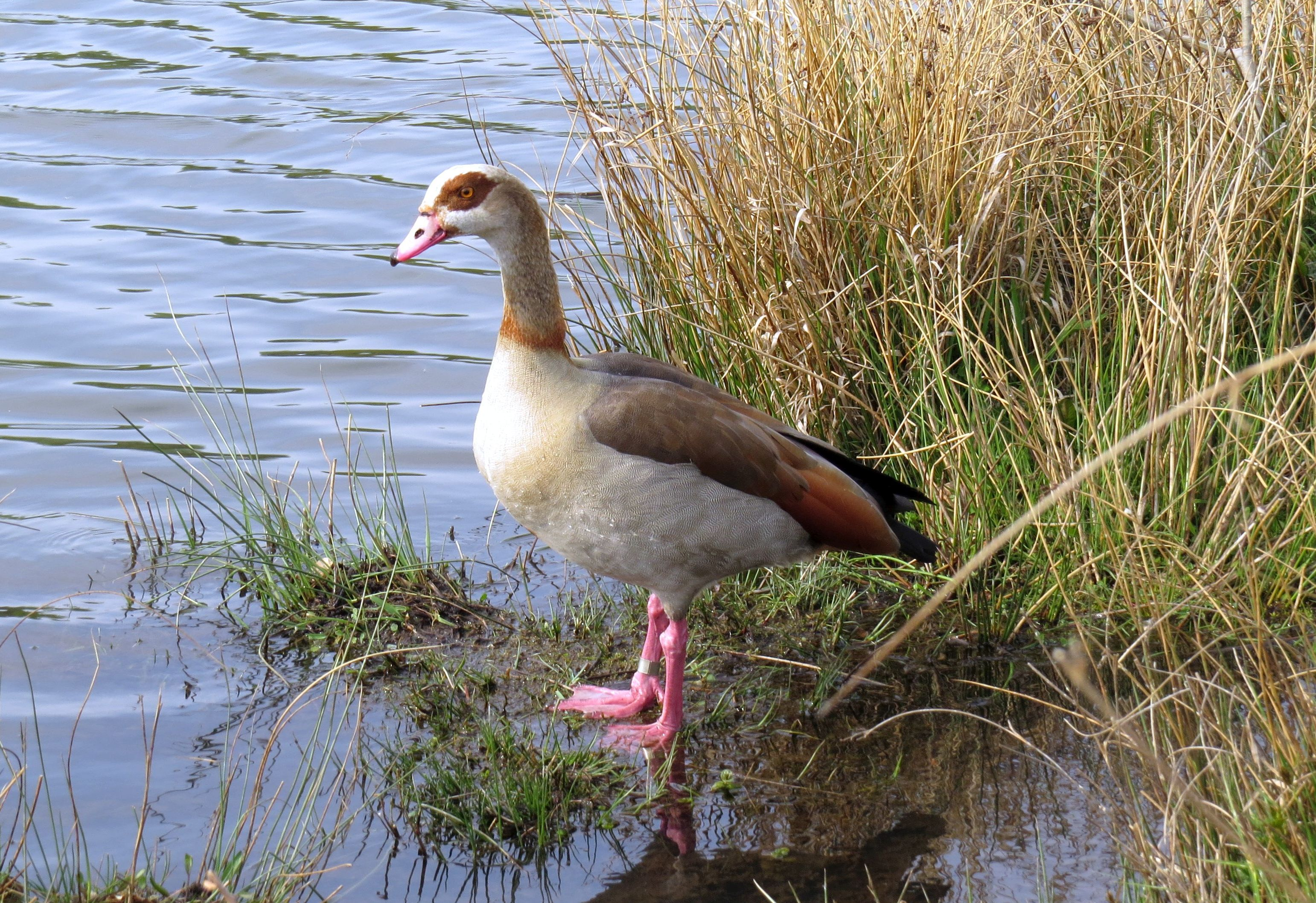 Duck to the Pen pond in the Richmond Park